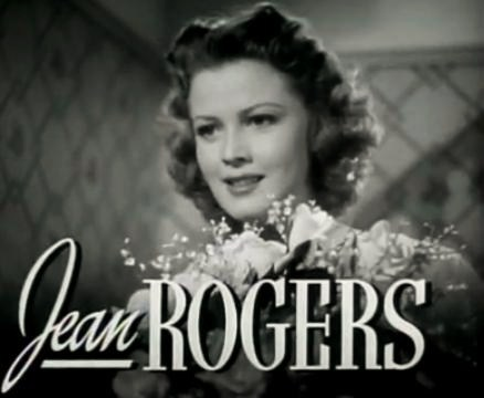 Jean Rogers in The War Against Mrs. Hadley (1940) - trailer (cropped screenshot)